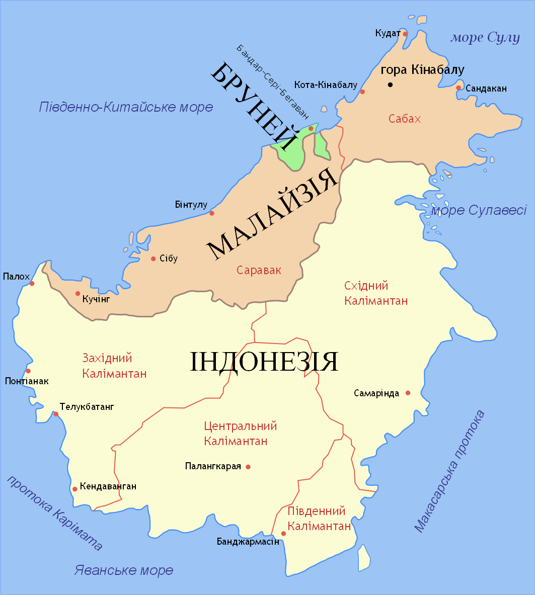 Map of Borneo in ukrainian